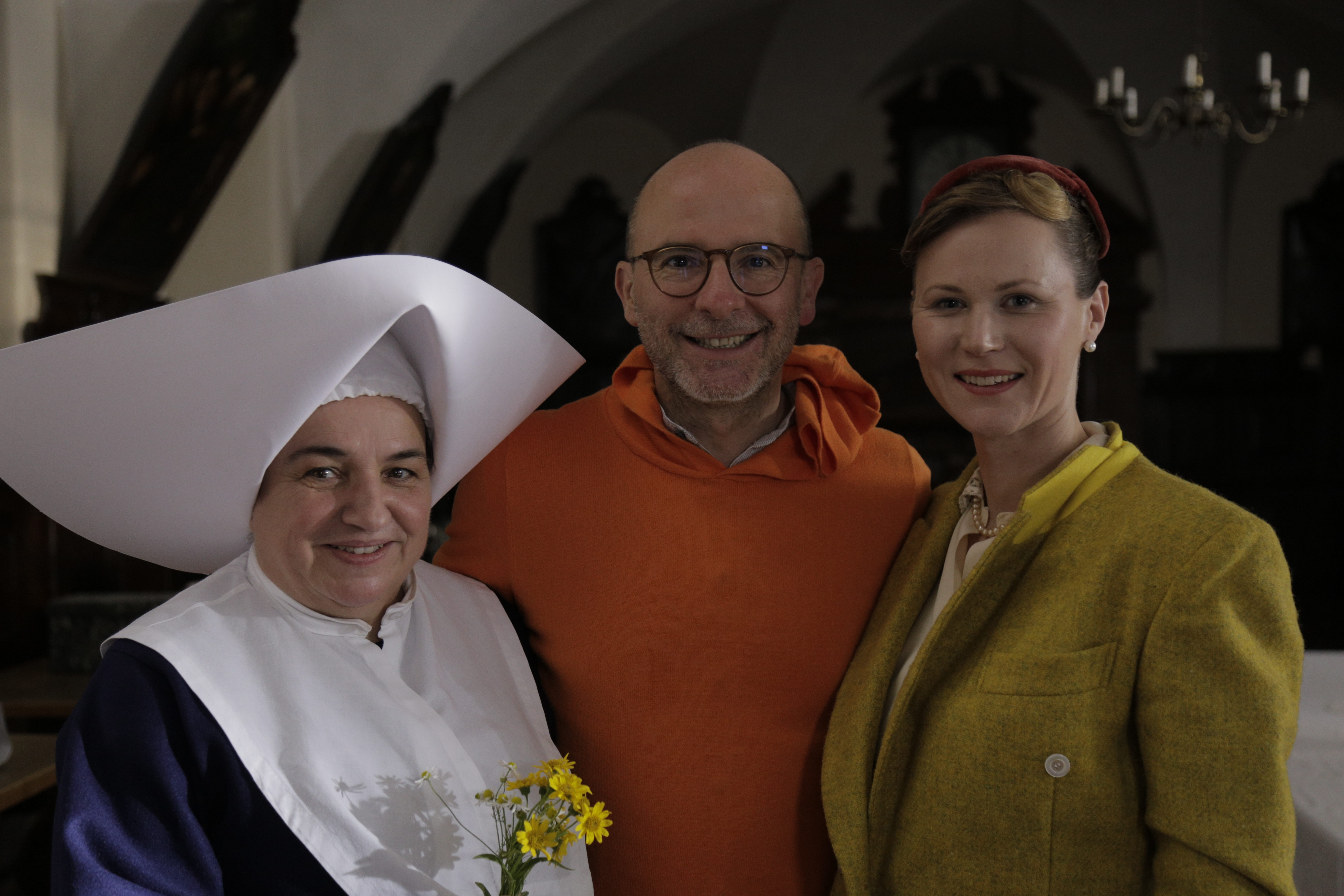 Author and Director Klaus T. Steindl with actresses Maria Happel (l) and Constanze Passin (r)